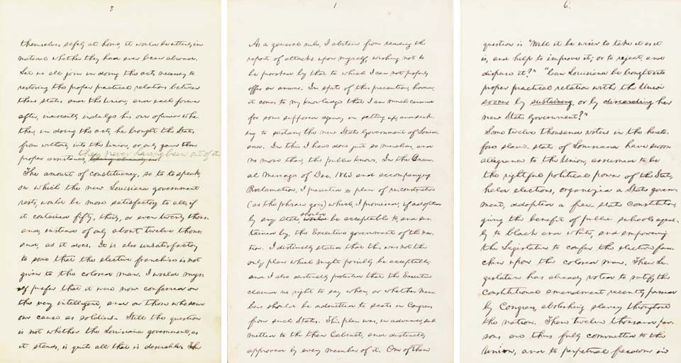 Lincoln last speech manuscript